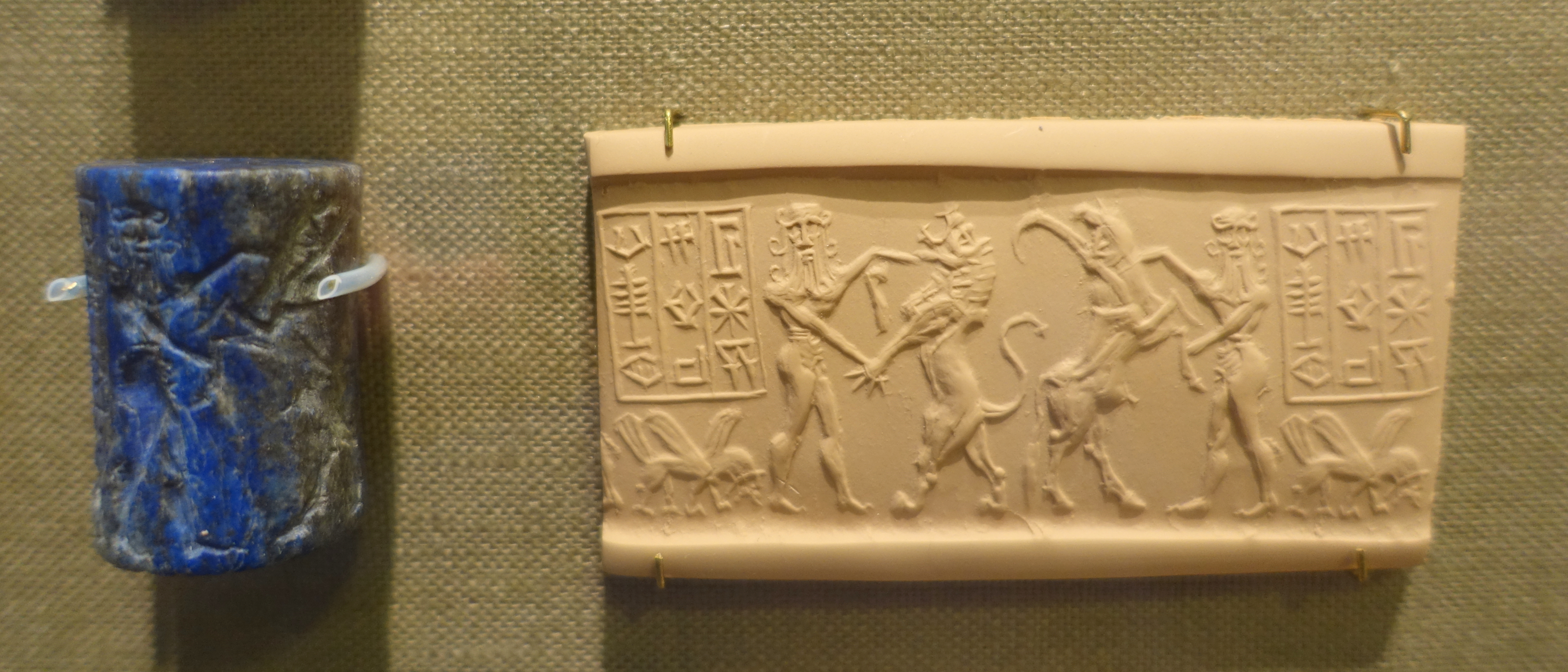 Exhibit in the Oriental Institute Museum, University of Chicago, Chicago, Illinois, USA. This work is old enough so that it is in the public domain.